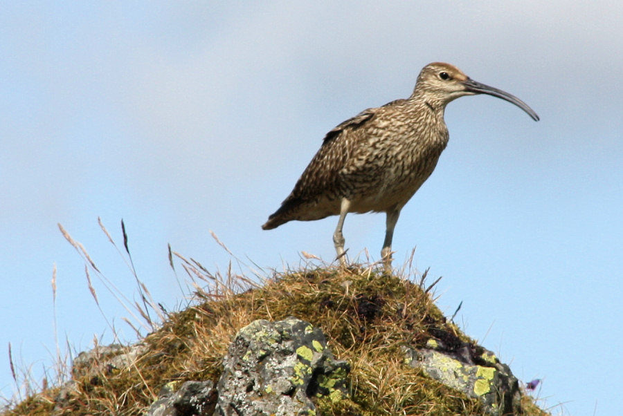 Whimbrel (Numenius phaeopus) in Lonsoraefi area, Iceland.